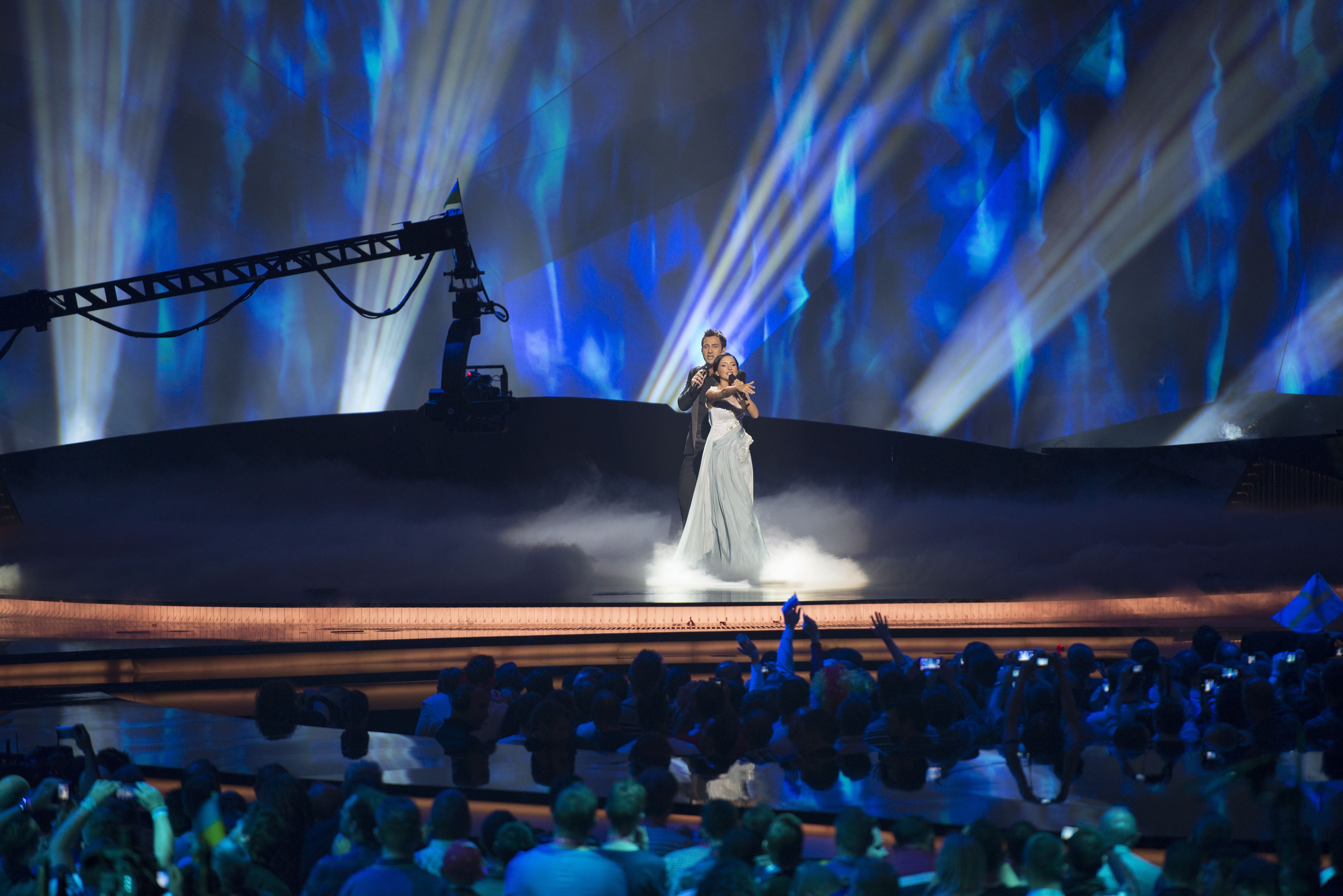 Nodi Tatishvili and Sophie Gelovani representing Georgia with the song "Waterfall" during the second dress rehearsal of the second semi final of the Eurovision Song Contest 2013 in Malmö. (Help translate this text)